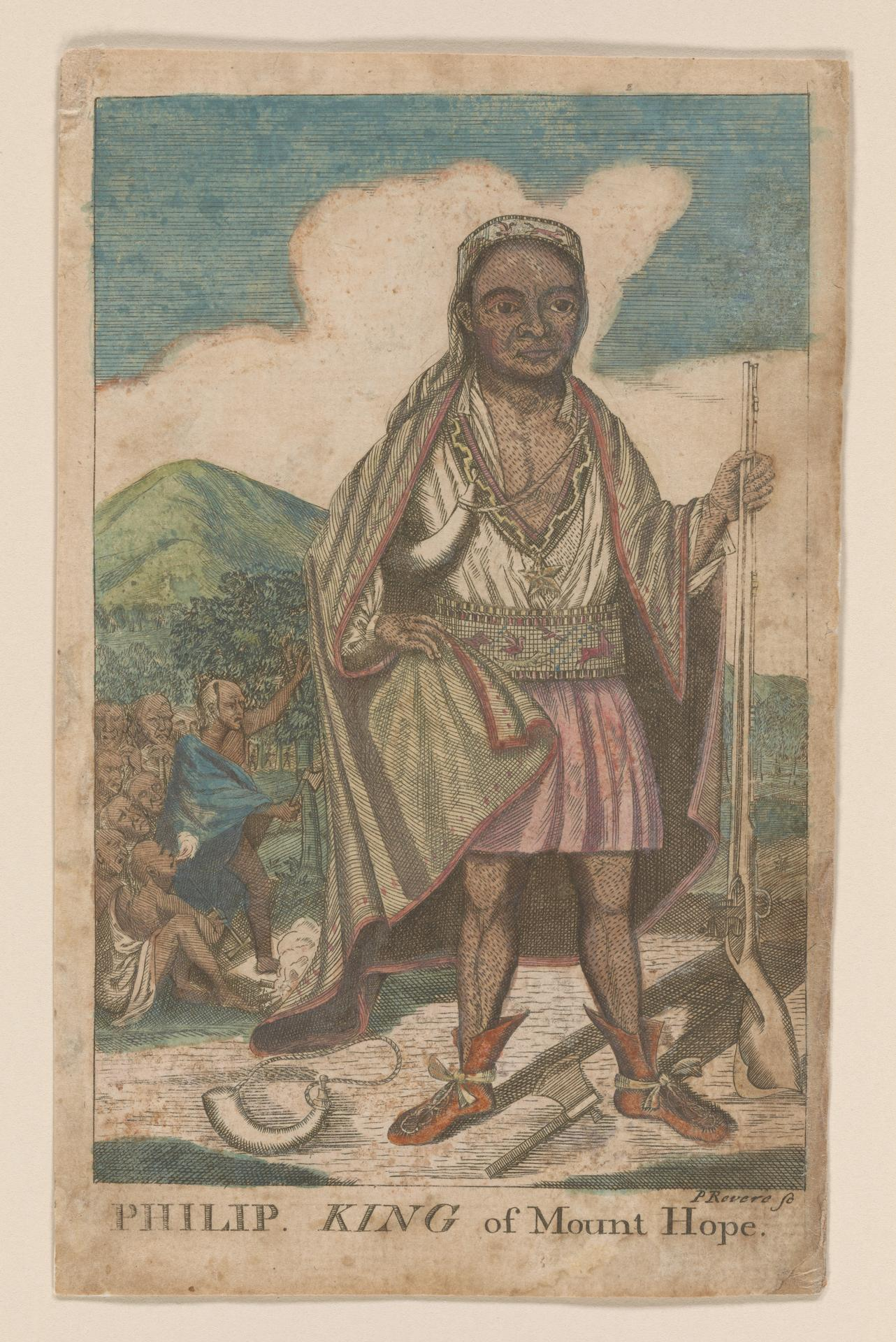 "Philip, King of Mount Hope", from the Church's The Entertaining History of King Philip's War, line engraving, colored by hand, by the American engraver and silversmith Paul Revere. 17.3 cm x 10.7 cm (6 13/16 in. x 4 3/16 in.) Mabel Brady Garvan Collection, Yale University Art Gallery. Courtesy of Yale University, New Haven. Conn.